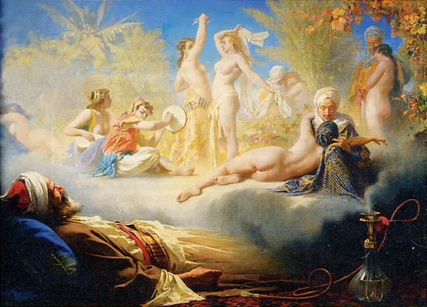 Le Rêve du croyant or the Dream of the Believer, painting by Achille Zo (1826-1901)